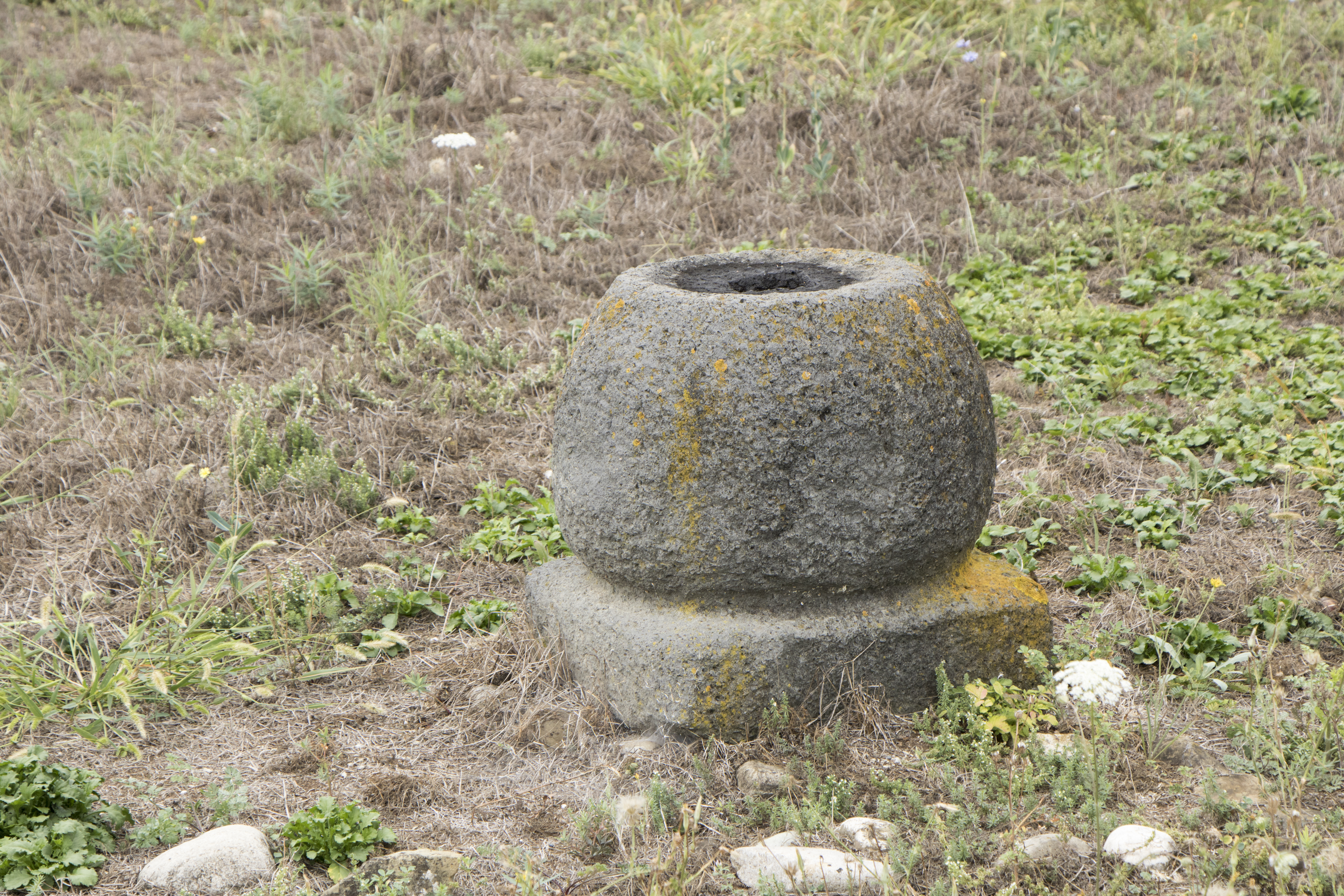 Dzalisi - pillar basement